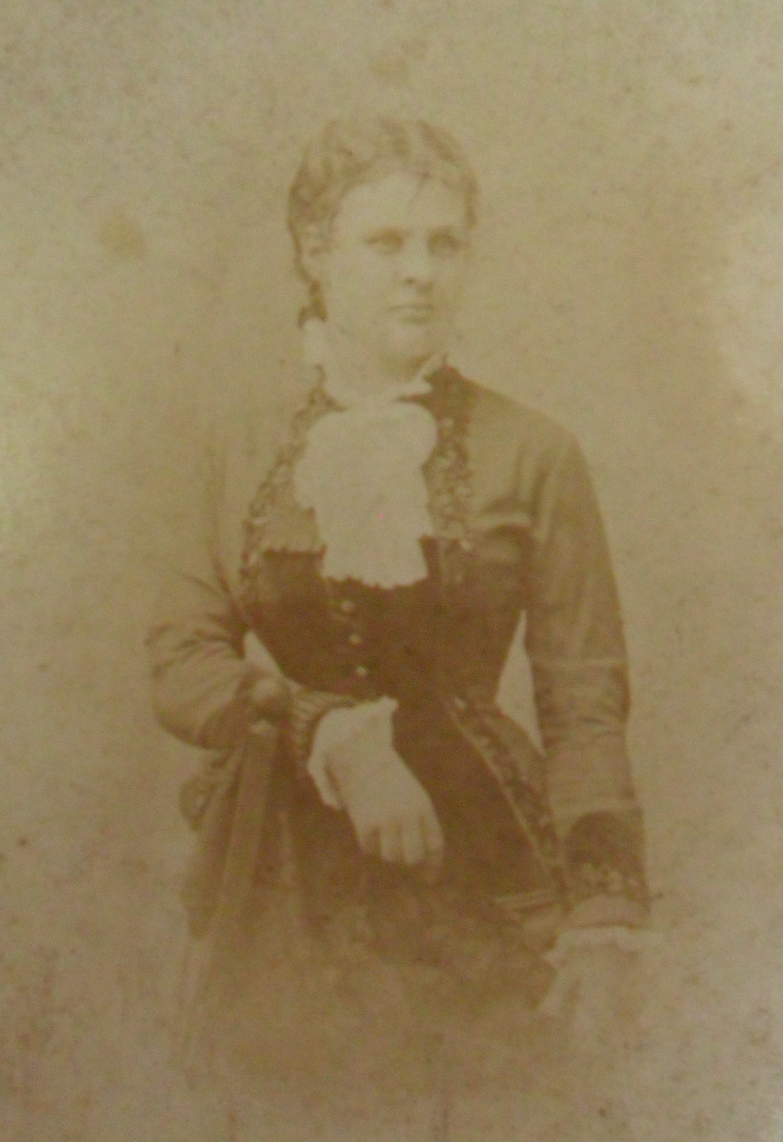 The Hungarian noble lady Rozália Sümeghy de Lovász et Szentmargita (1857 - 1924) , wife of the Hungarian politician József Farkas de Boldogfa (1857-1951), member of the Hungarian Parliament.